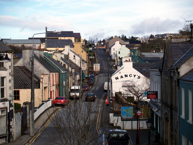 Front Street Ardara Photograph taken from Drumbarron Hill